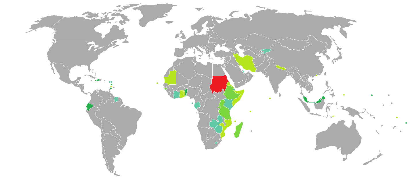 Visa requirements or Sudanese citizens Sudan Visa free access Visa on arrival eVisa Visa required